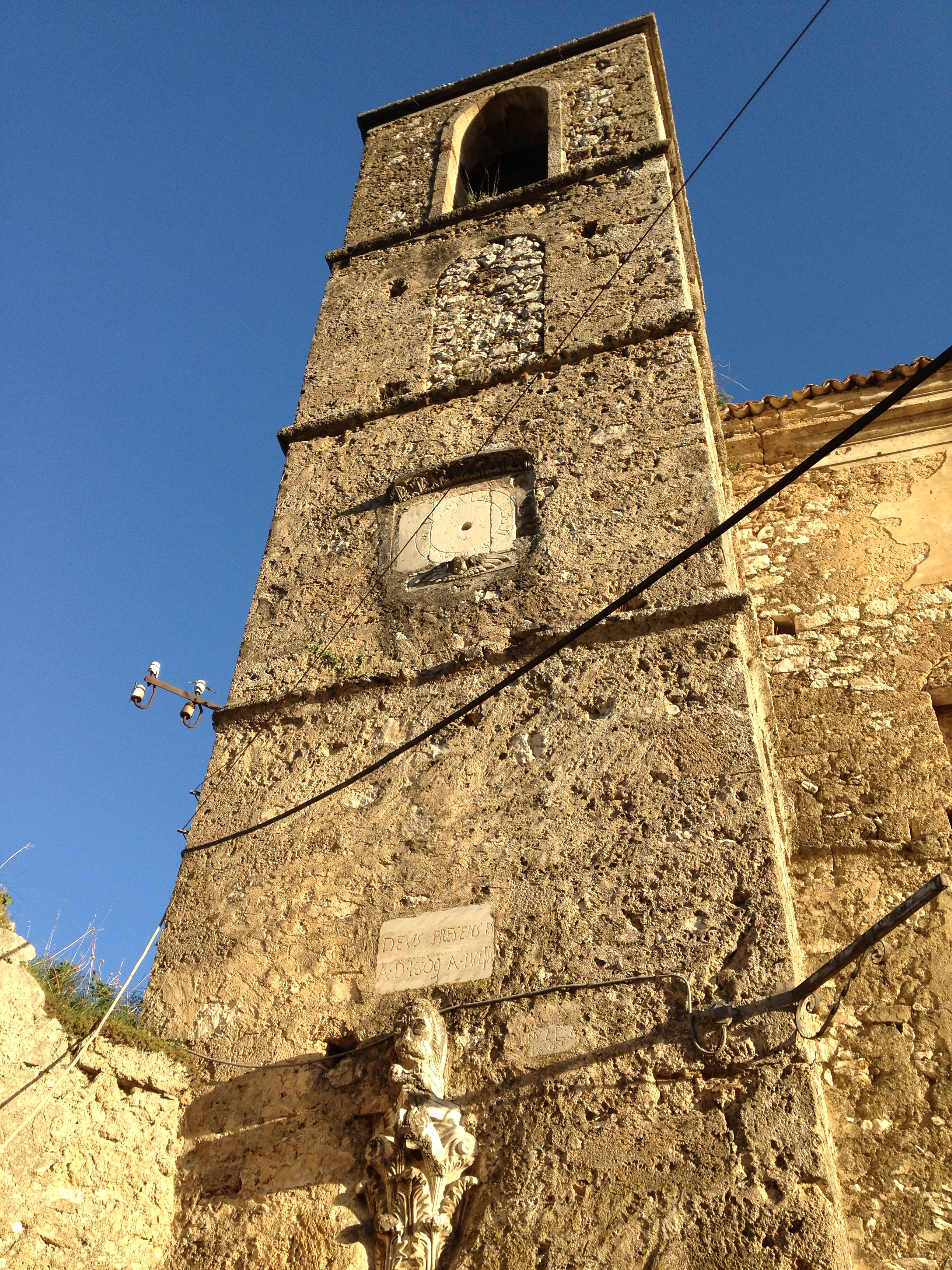 Bell tower of the Church of Santa Maria Assunta, located in the lower part of the ancient village of Rocchetta a Volturno